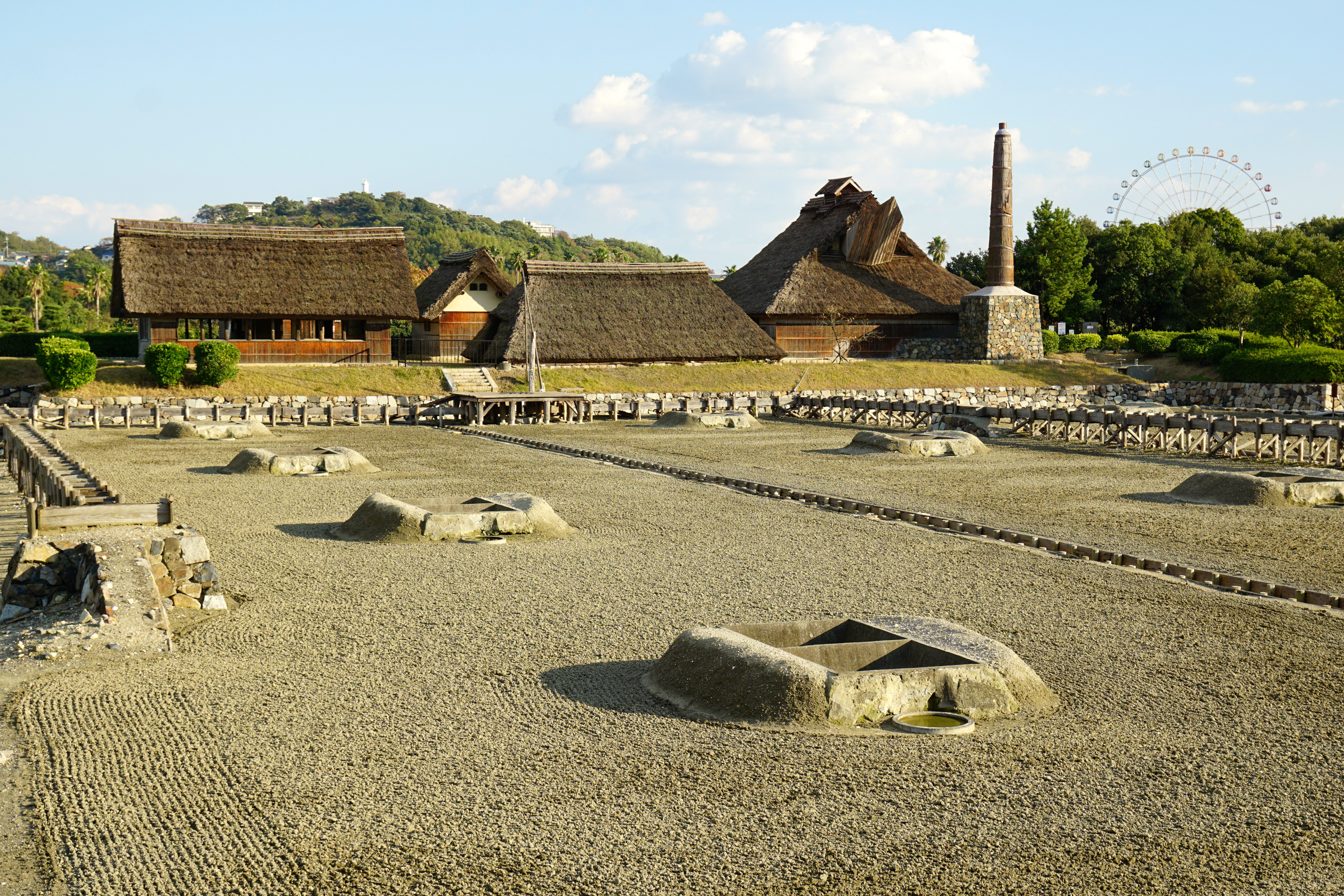 Ako Marine Science Museum in Ako, Hyogo prefecture, Japan.